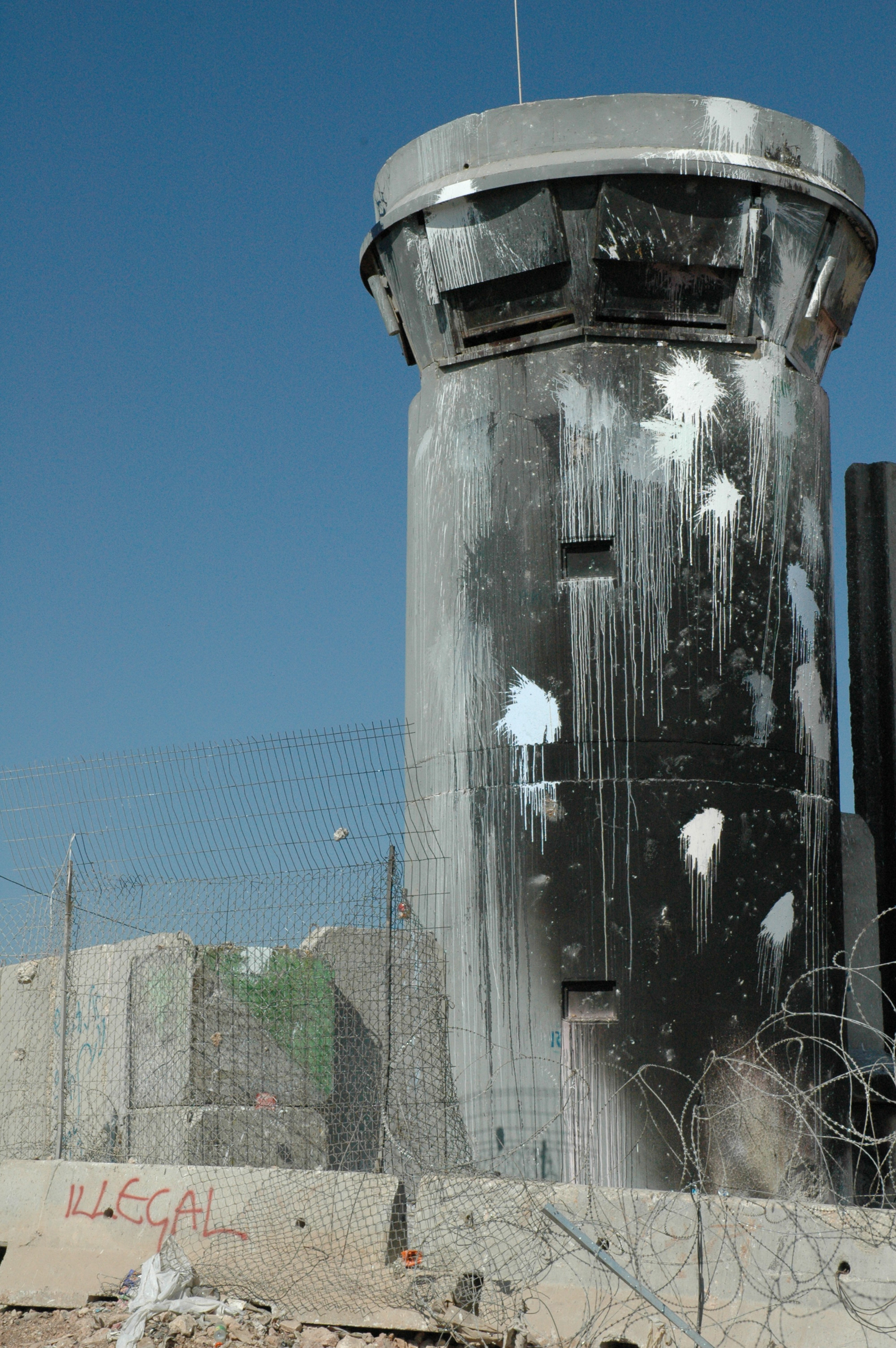 Israel, Qalandia checkpoint - Watchtower in the Israeli West Bank barrier.